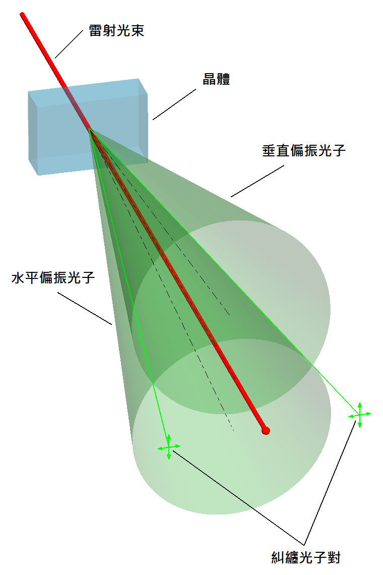 Artistic rendering of the generation of an entangled pair of photons by spontaneous parametric down-conversion as a laser beam passes through a nonlinear crystal. Original English inscriptions replaced by Chinese.